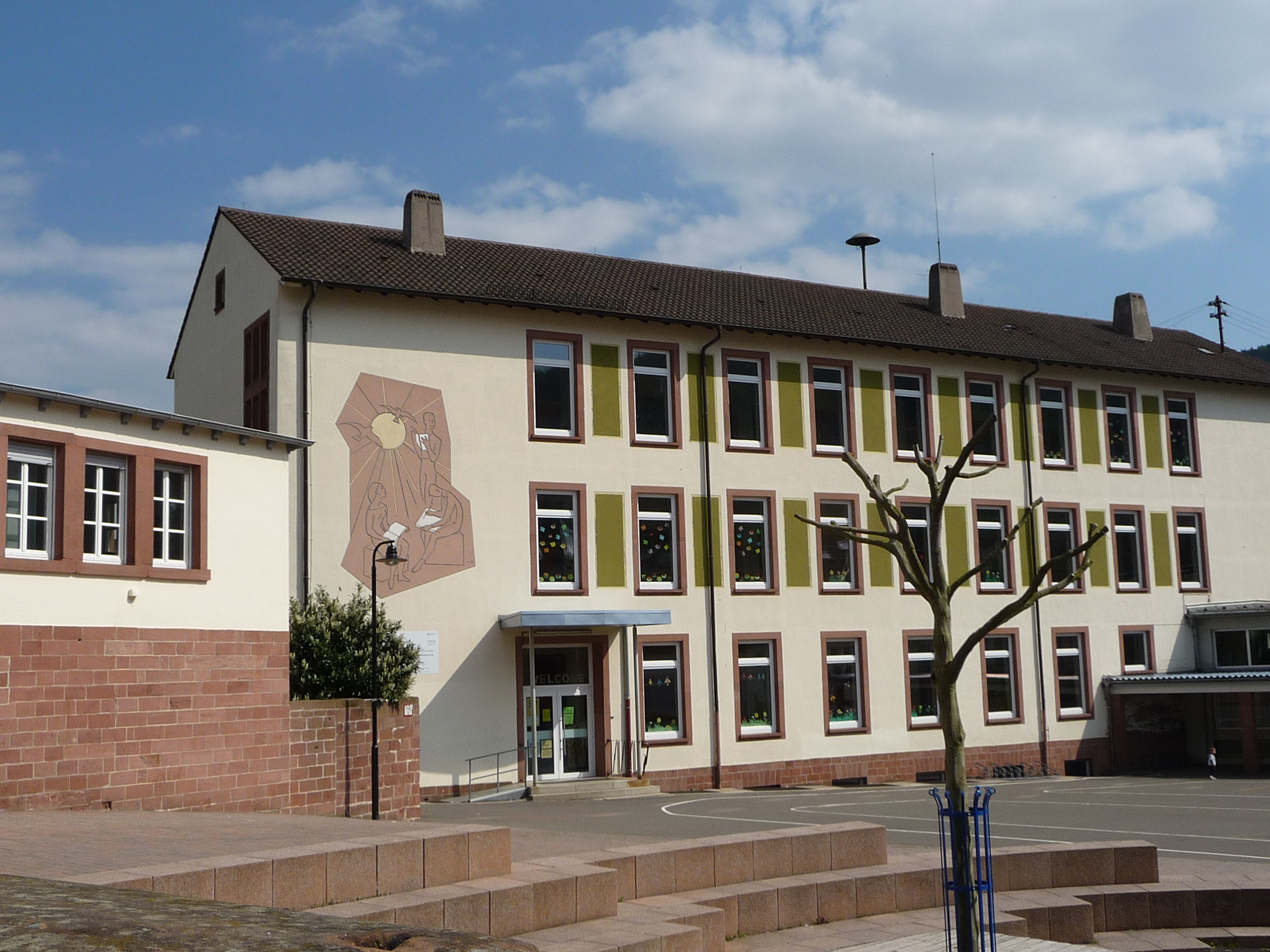 Schools in Lambrecht (Pfalz)